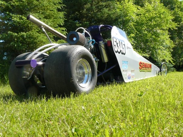 Back of a 2007 KCS Jr.Dragster. Shows Just how Narrow the cars are.